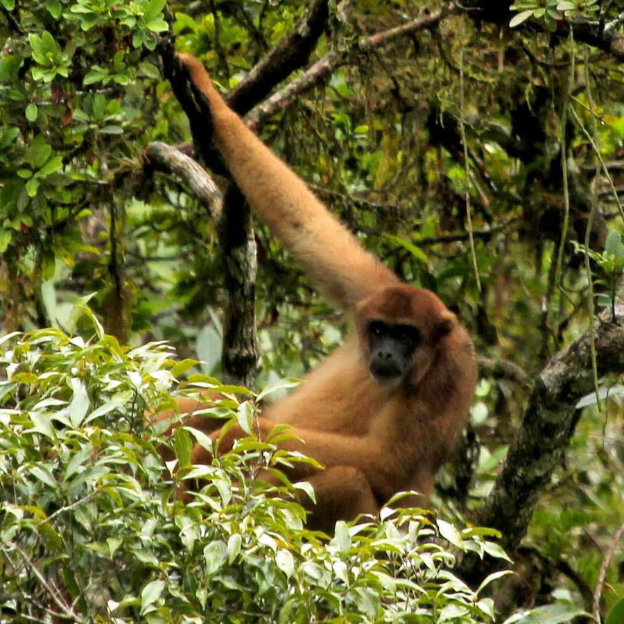 Southern muriqui in Zizo Park, in São Miguel Arcanjo city, Brazil.